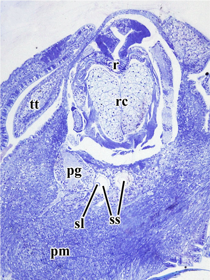 Photo of transverse semi-thin section from Gigantopelta chessoia. Posterior part of the head showing radula apparatus, pedal ganglion, and statocysts. Scale bar is 1 cm. tt - cephalic tentacle, r - radula, rc - radula cartilage, pg - pedal ganglion, sl - statolith, ss - statocyst, pm - pedal musculature.